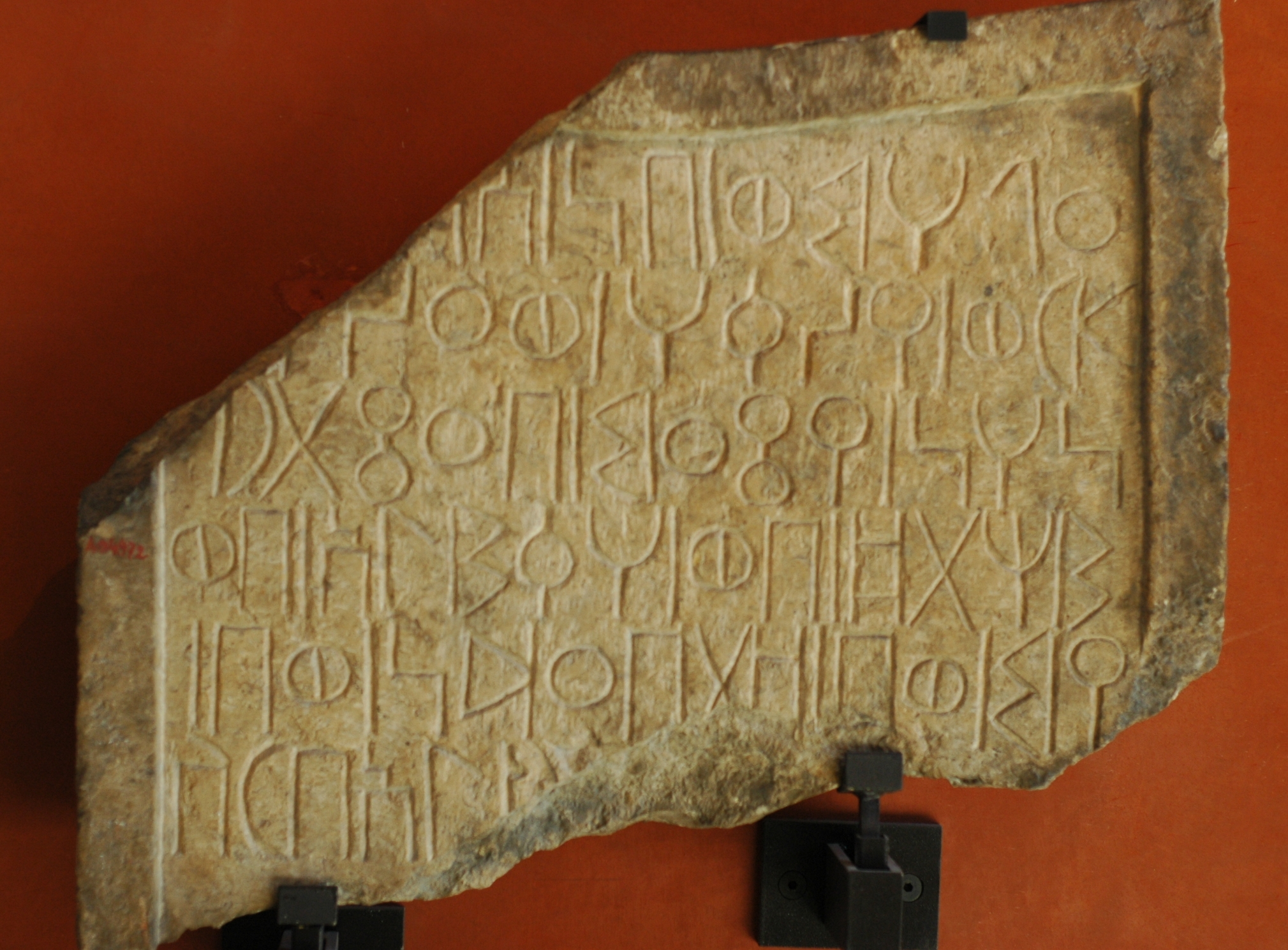 Qatabanic inscription on an alabaster stele, 1st century CE. Yemen, kingdom of Qataban, Tamma.